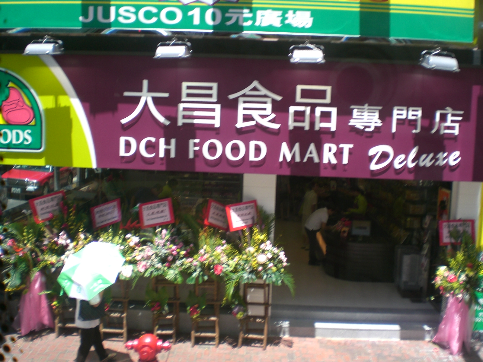 大昌食品市場, 堅拿道西分店, Canal Road West, Wan Chai, Hong Kong Author= SWCWB101